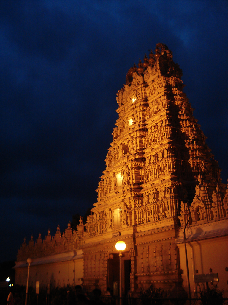 A temple in the Mysore Palace complex lit during the evening.